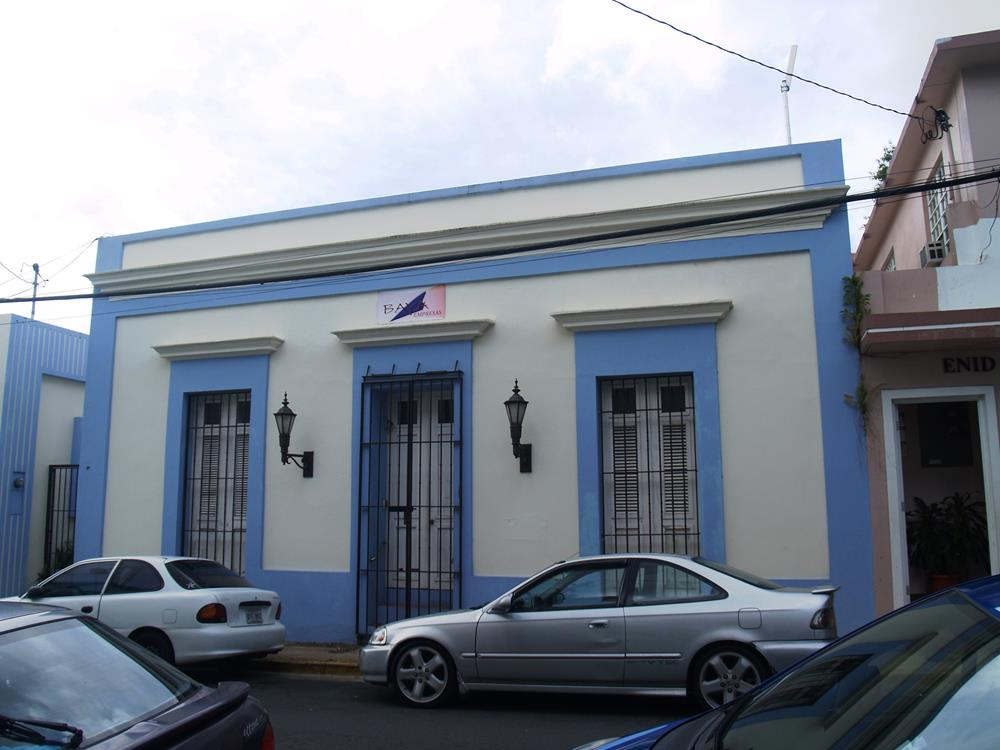 Casa Dr. Agustin Stahl Stamm